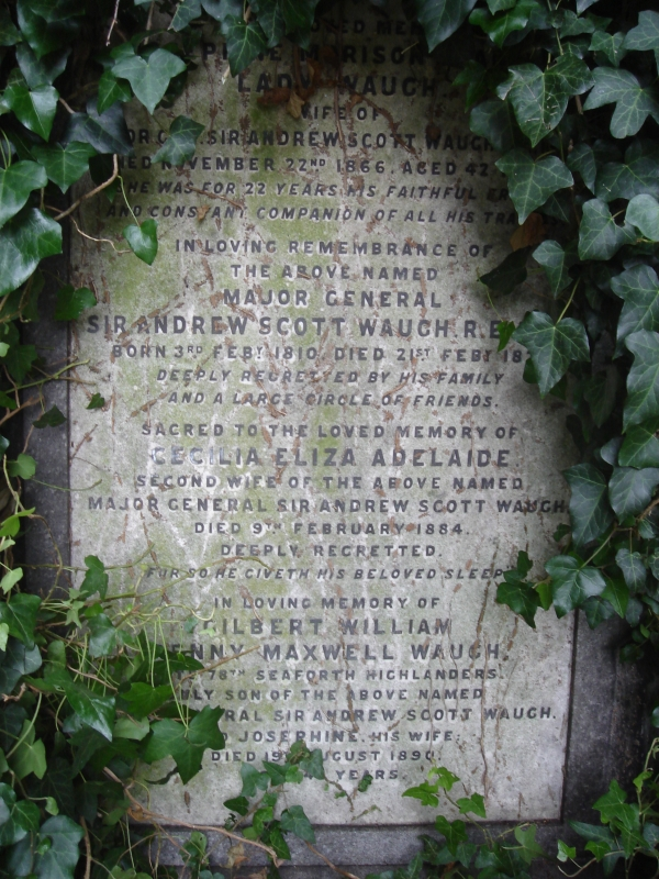 Funerary monument of Major General Sir Andrew Scott Waugh (3 February 1810 – 21 February 1878), at Brompton Cemetery, London.